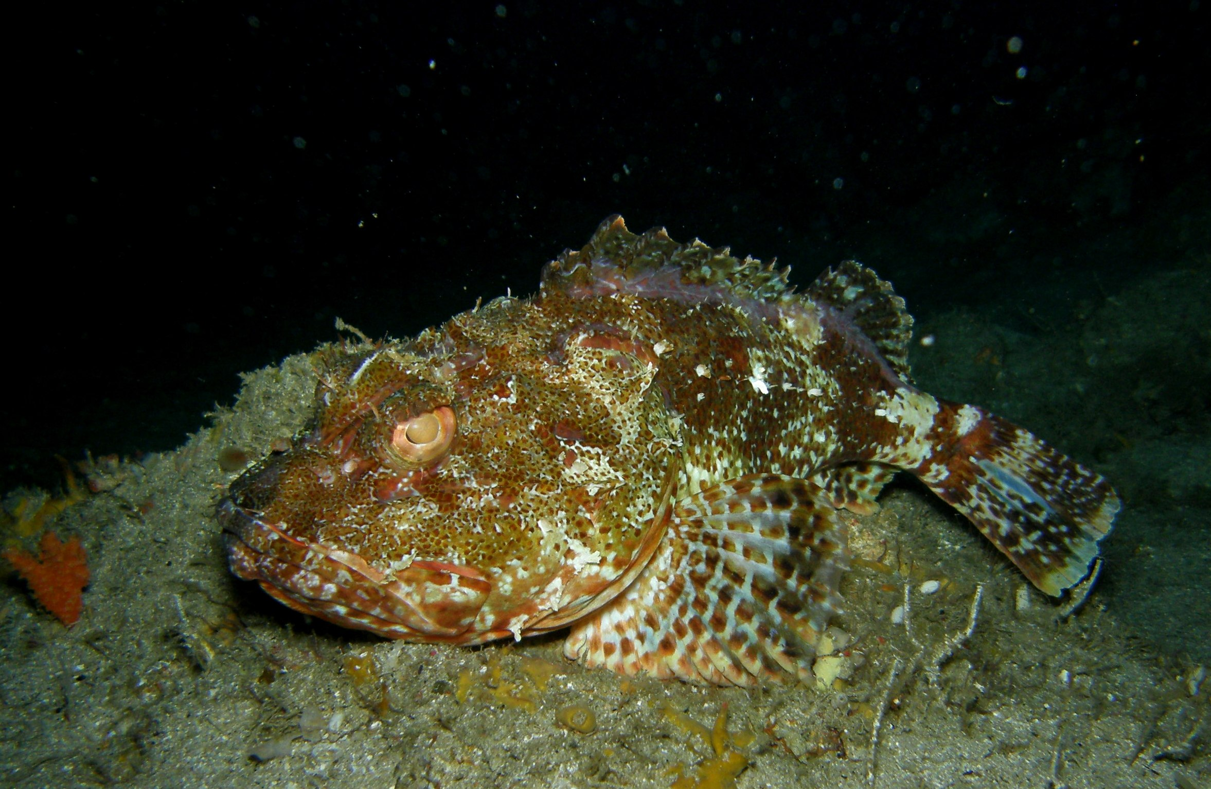 Northern Scorpionfish - Poor Knights Islands